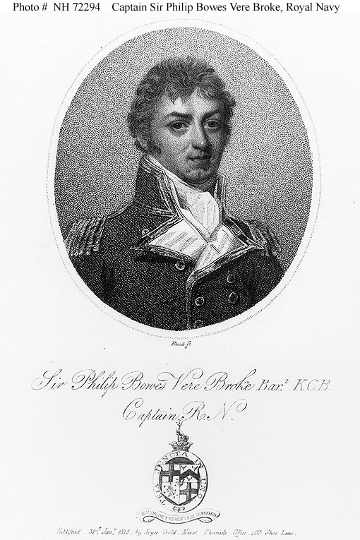 Sir Philip Bowes de Vere Broke Image from the US Naval Historical Center. I believe images created by US Government agencies are in the public domain. And I am tagging it that way.